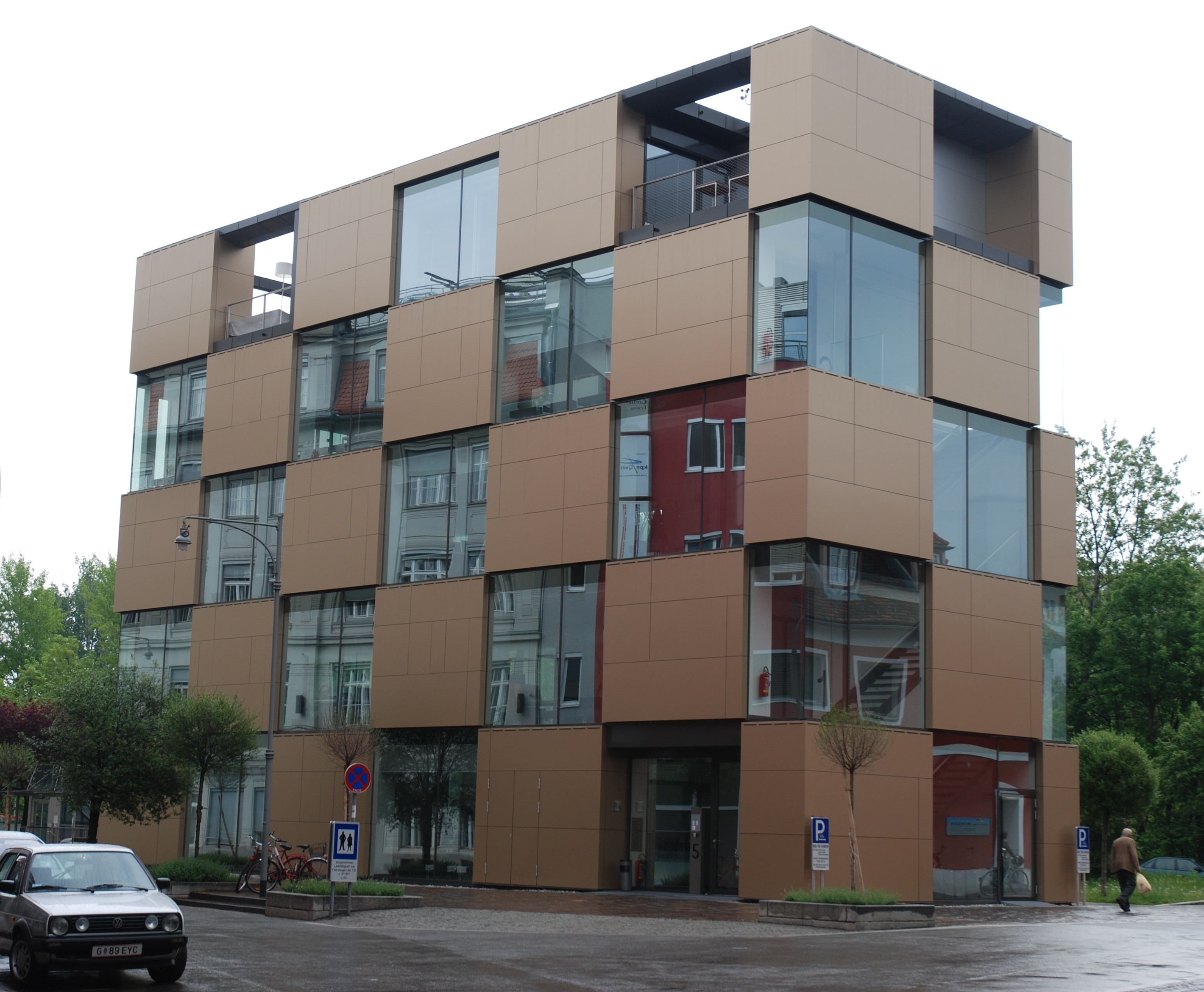 NIK Office building in Graz, Austria. Architects: Thomas Pucher and Alfred Bramberger.